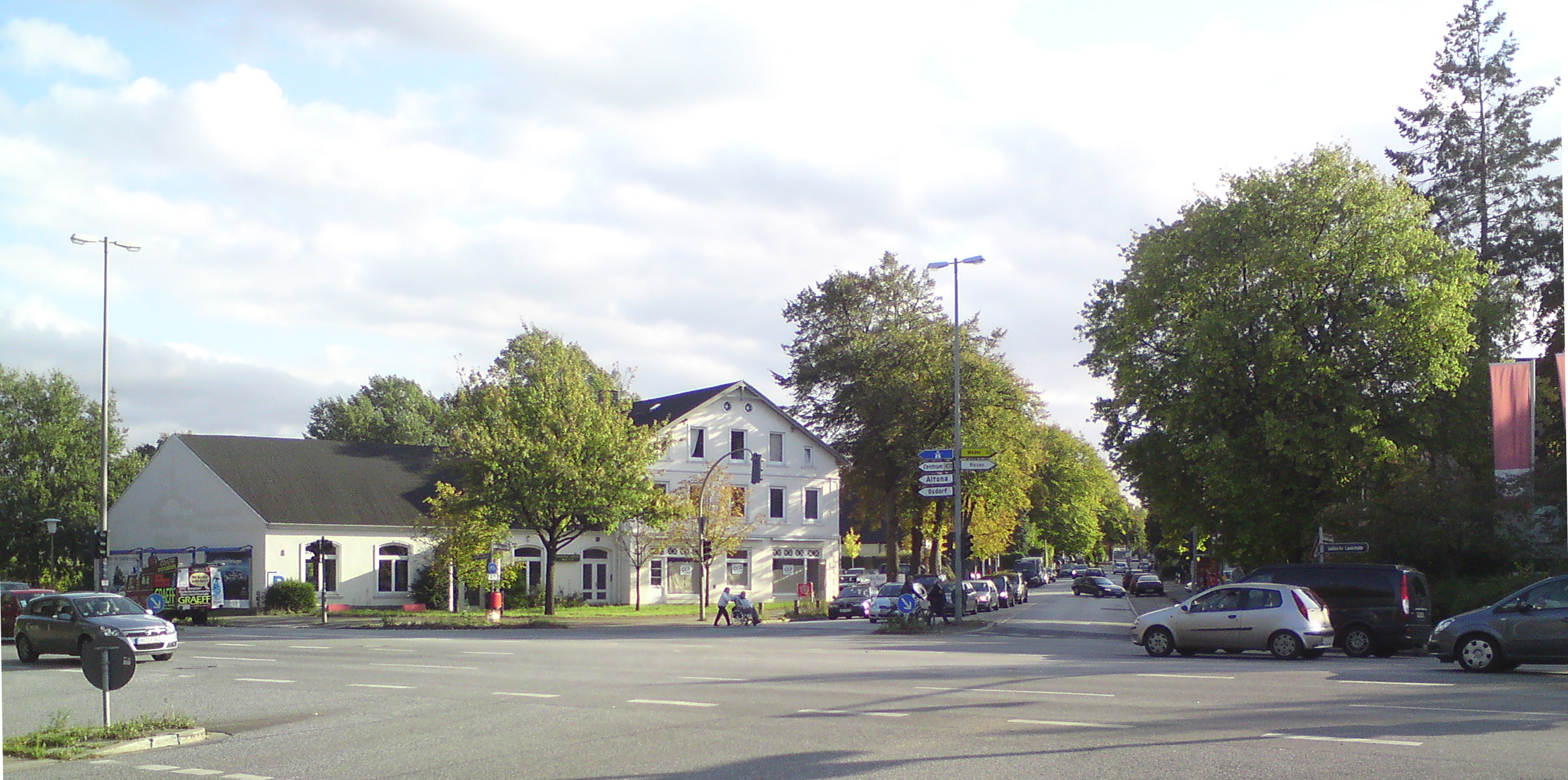 Crossroads Schenefelder Landstraße/Sülldorfer Landstraße, Hamburg-Iserbrook, Germany